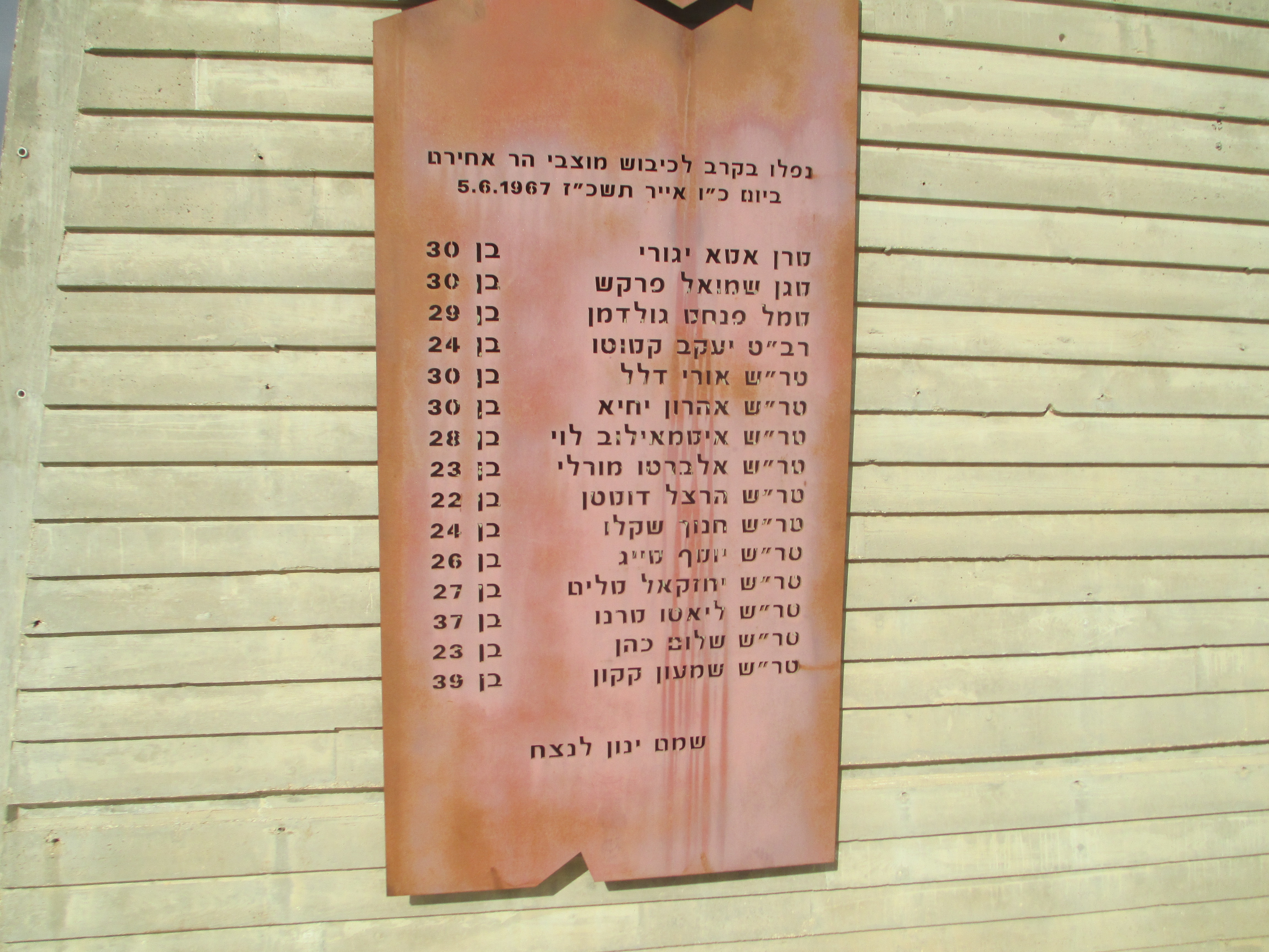 Yad Asa in Mevaseret Zion